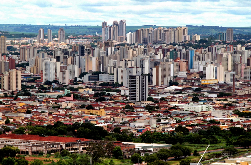 Buildings in Ribeirão Preto, São Paulo, Brazil.